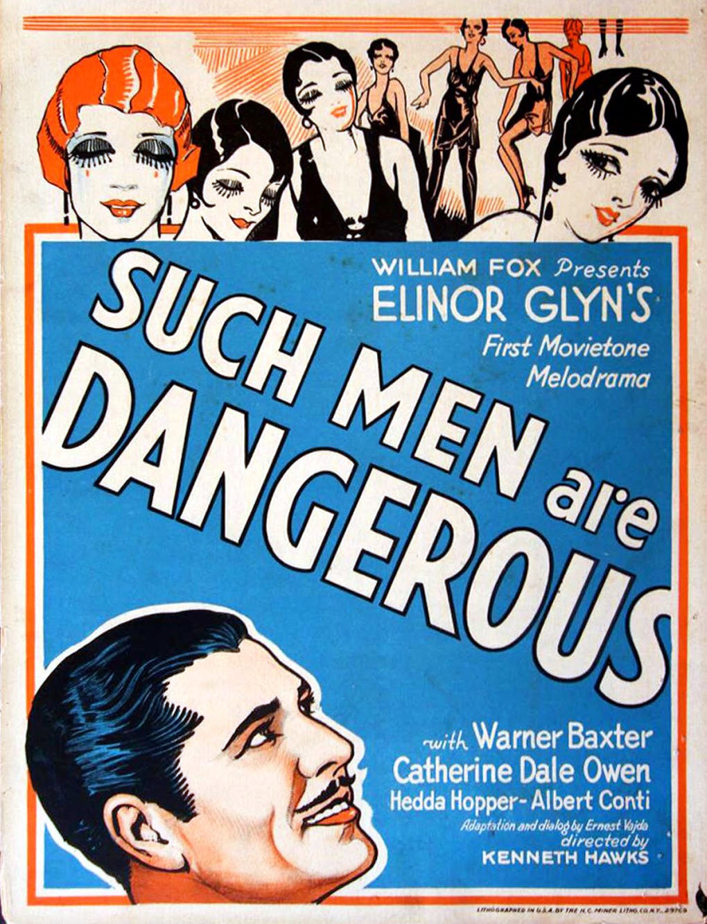 Window poster for the 1930 film Such Men Are Dangerous.